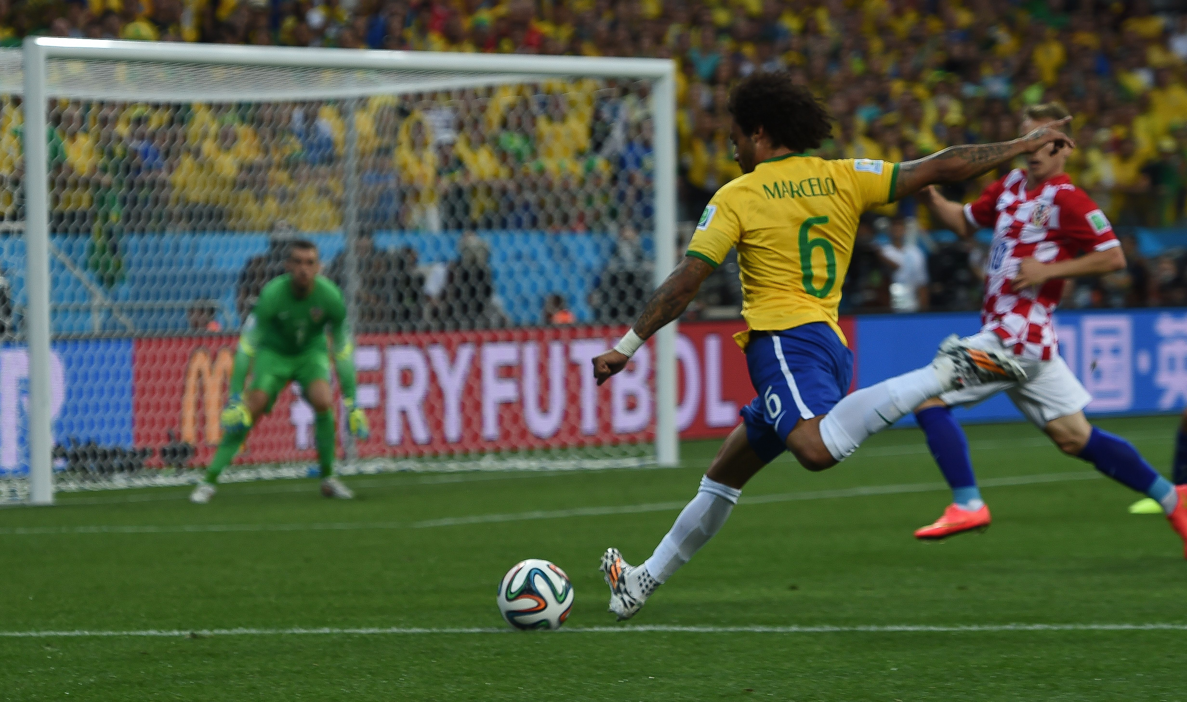 Brazil and Croatia match at the FIFA World Cup 2014-06-12